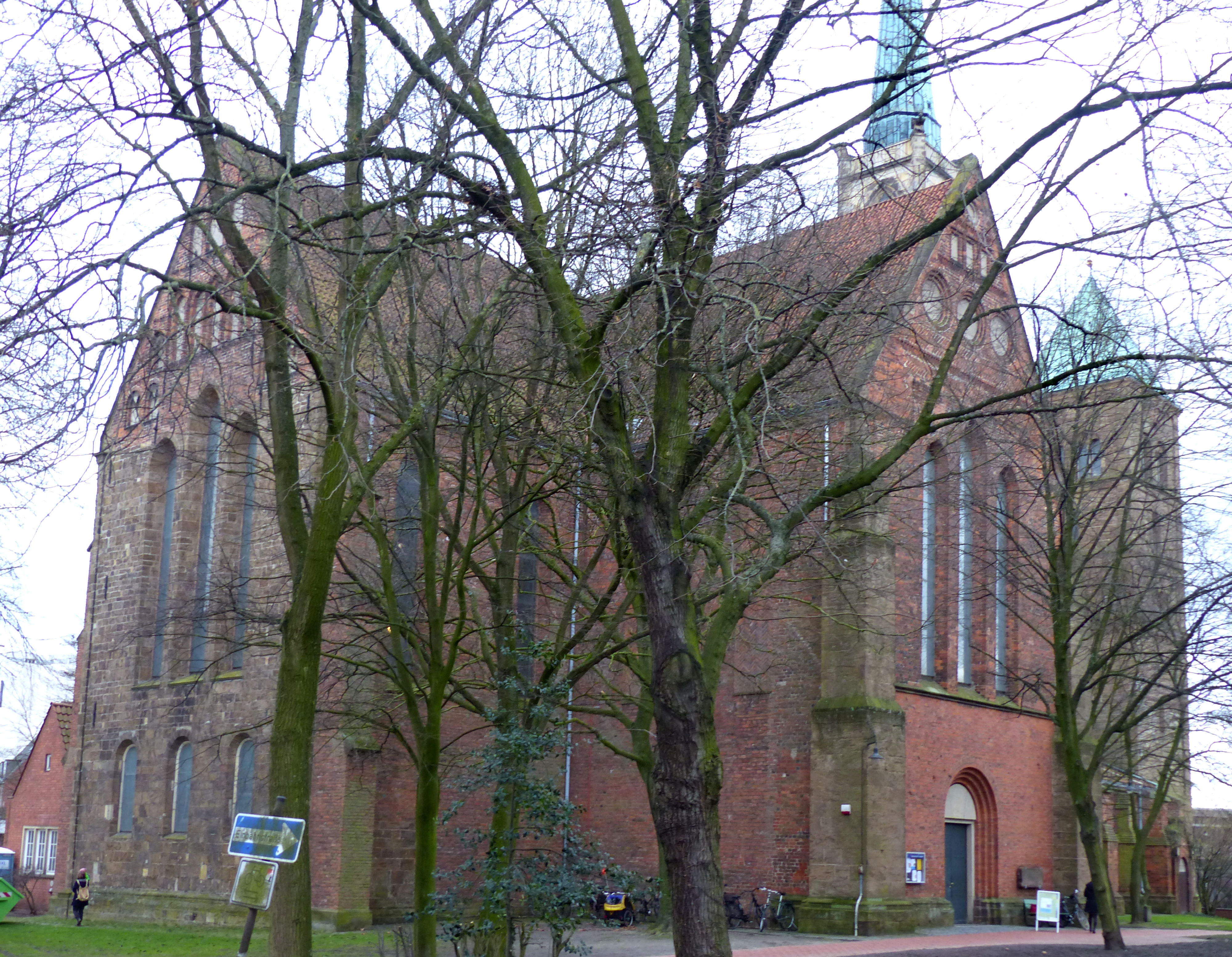 Choir and transept of St. Stephani Church, Bremen from southeast